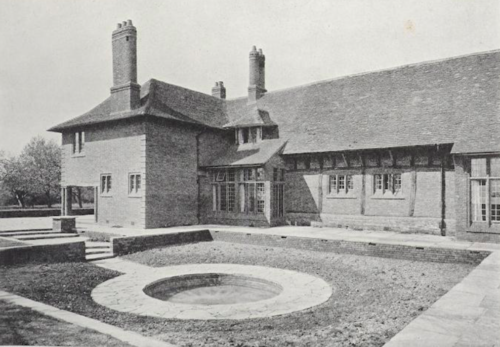 Little Pednor, Chesham by James Edwin Forbes and John Duncan Tate. From The Studio Yearbook of Decorative Art 1913